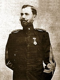 foto del Gral Andrade